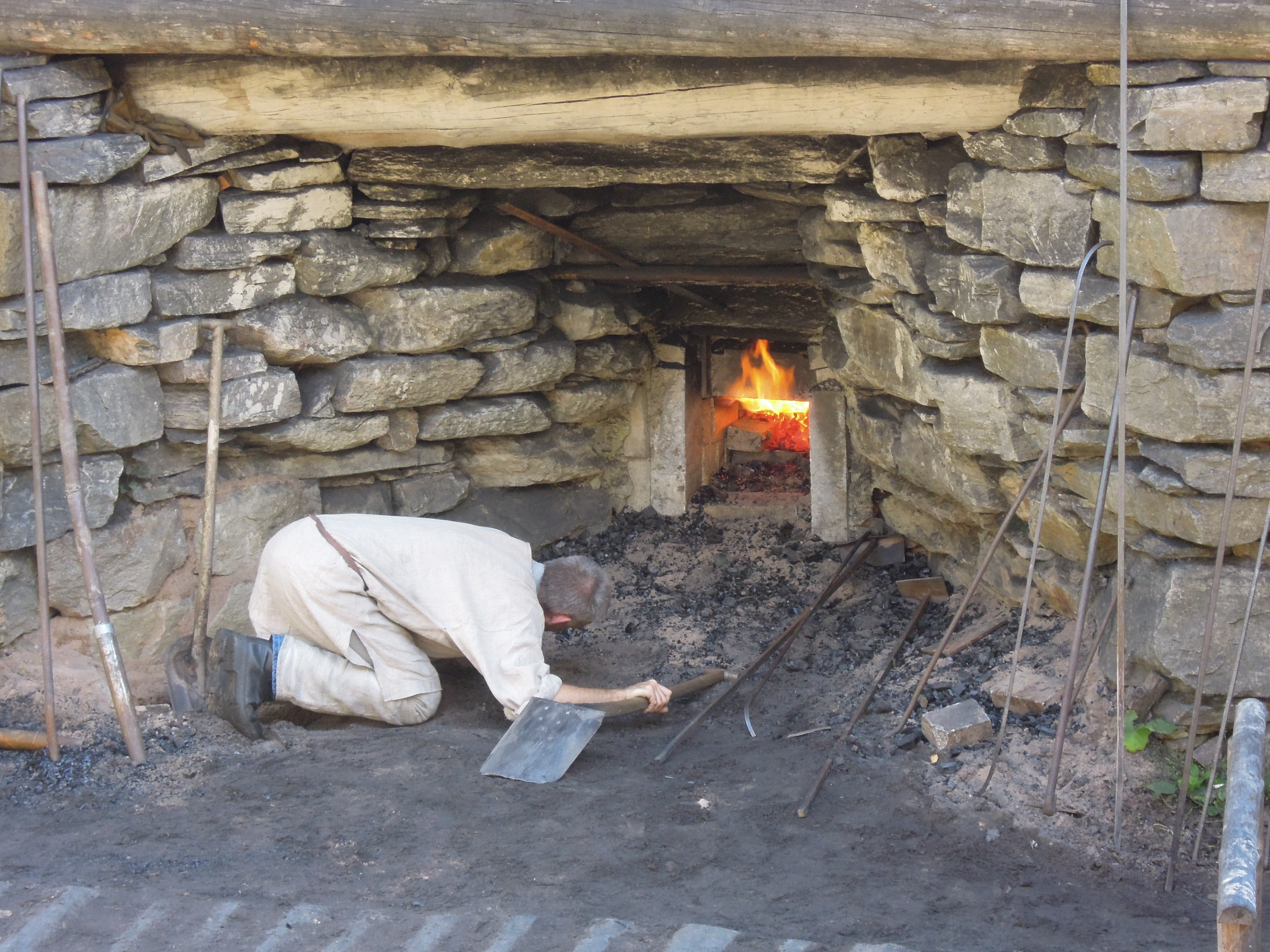 Lower part of the Swedish medieval research replica blast furnace Nya Lapphyttan when it is time for tapping of molten pig iron.